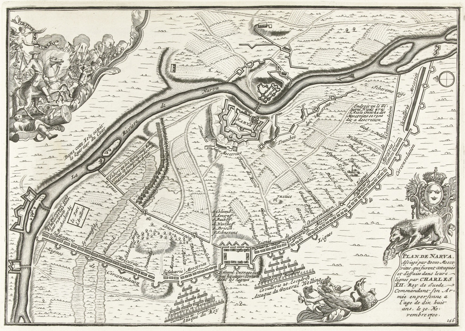 Engraving printed in 1702-1703 by Pieter Mortier (I) in Amsterdam. Unknown autor. Rijksmuseum Amsterdam